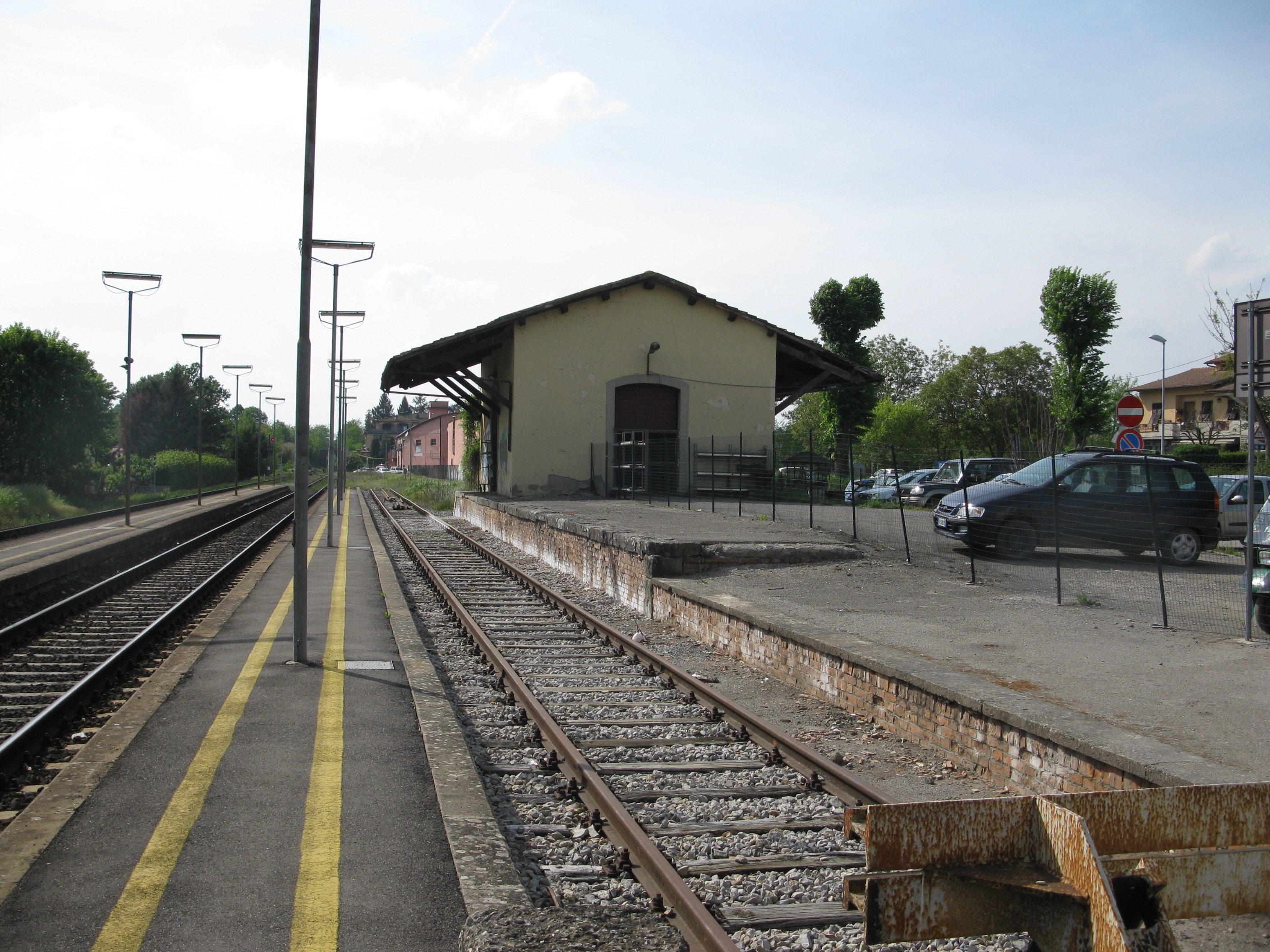 Vicchio railway station, old freight yard